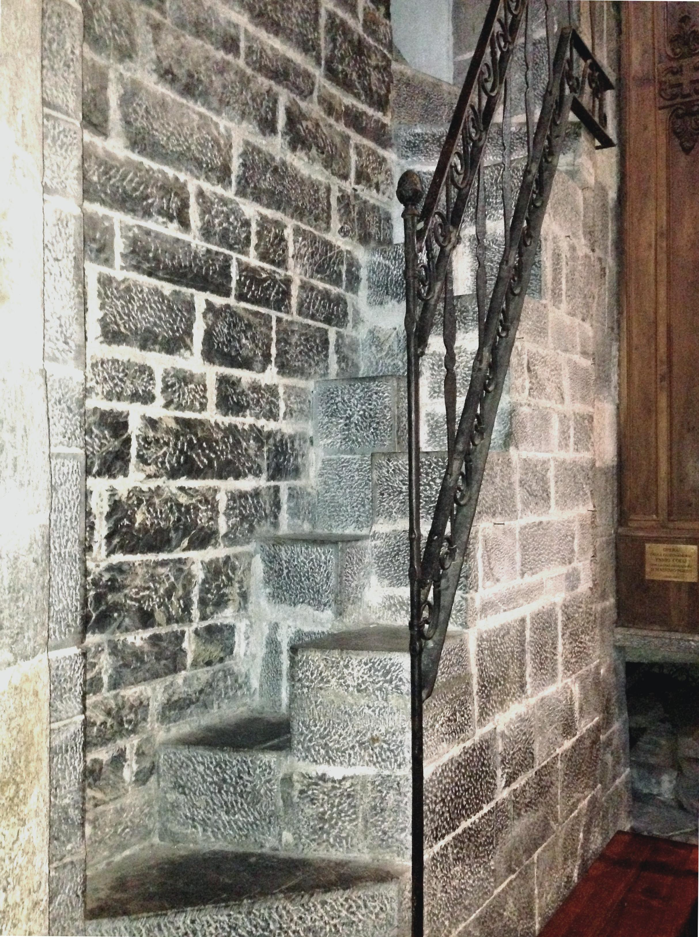 Staircase to the organ of the Albenga's Cathedral, Italy.